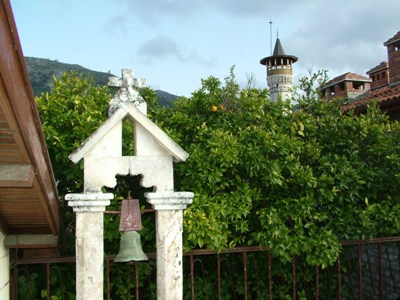 Antakya..